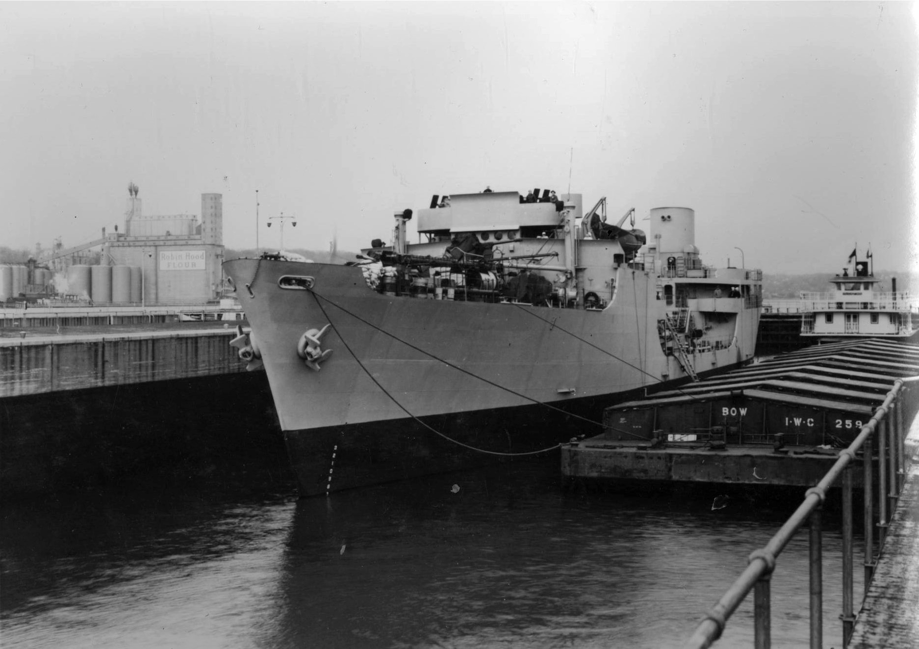 The U.S. Navy gasoline tanker USS Agawam (AOG-6) at Mississippi River Lock No. 15, in tow of the Federal Barge Line's towboat Huck Finn, 12 November 1943, while enroute from her builder's yard at Savage, Minnesota (USA), to New Orleans, Louisiana (USA).